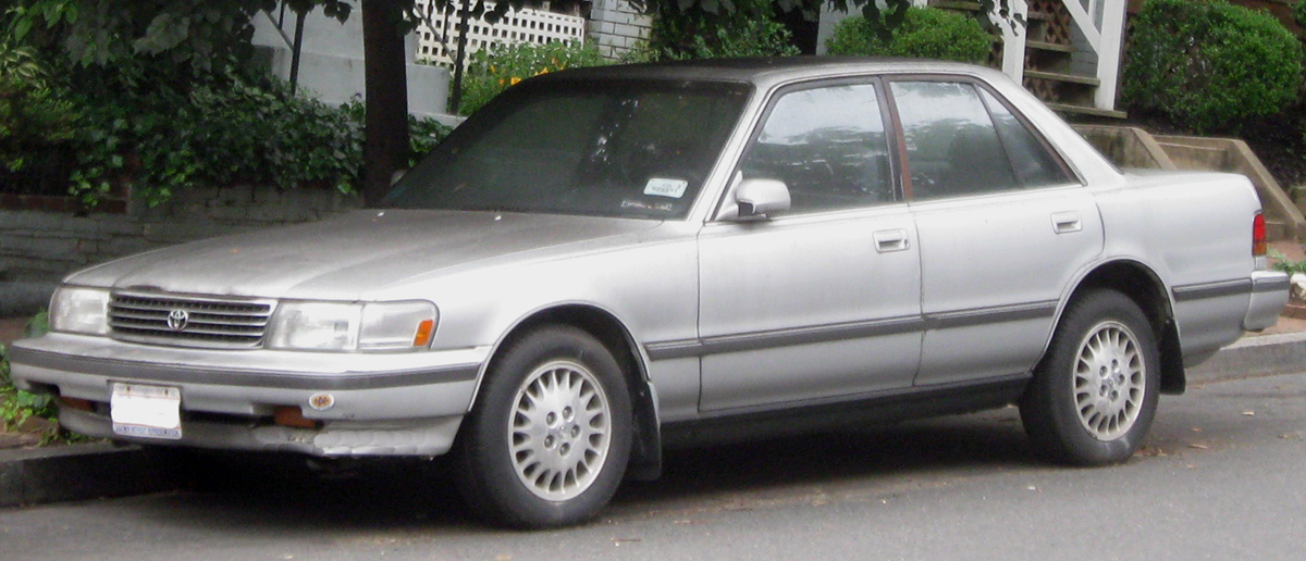 1991-1992 Toyota Cressida photographed in Washington, D.C., USA.